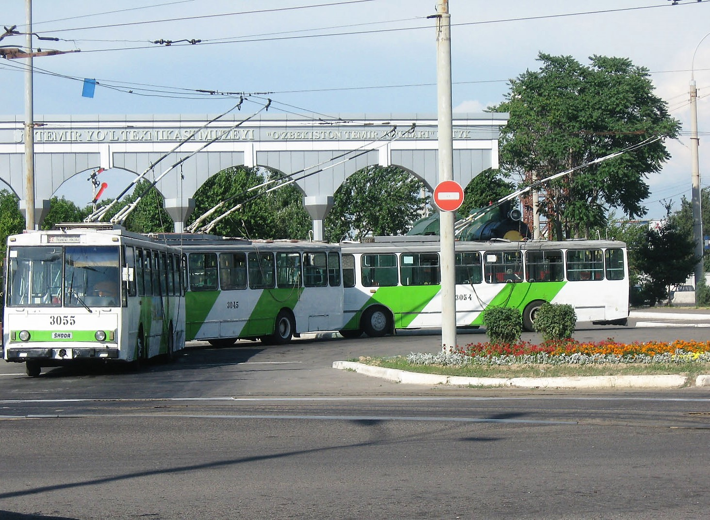 Škoda 14Tr trolleybuses in Tashkent